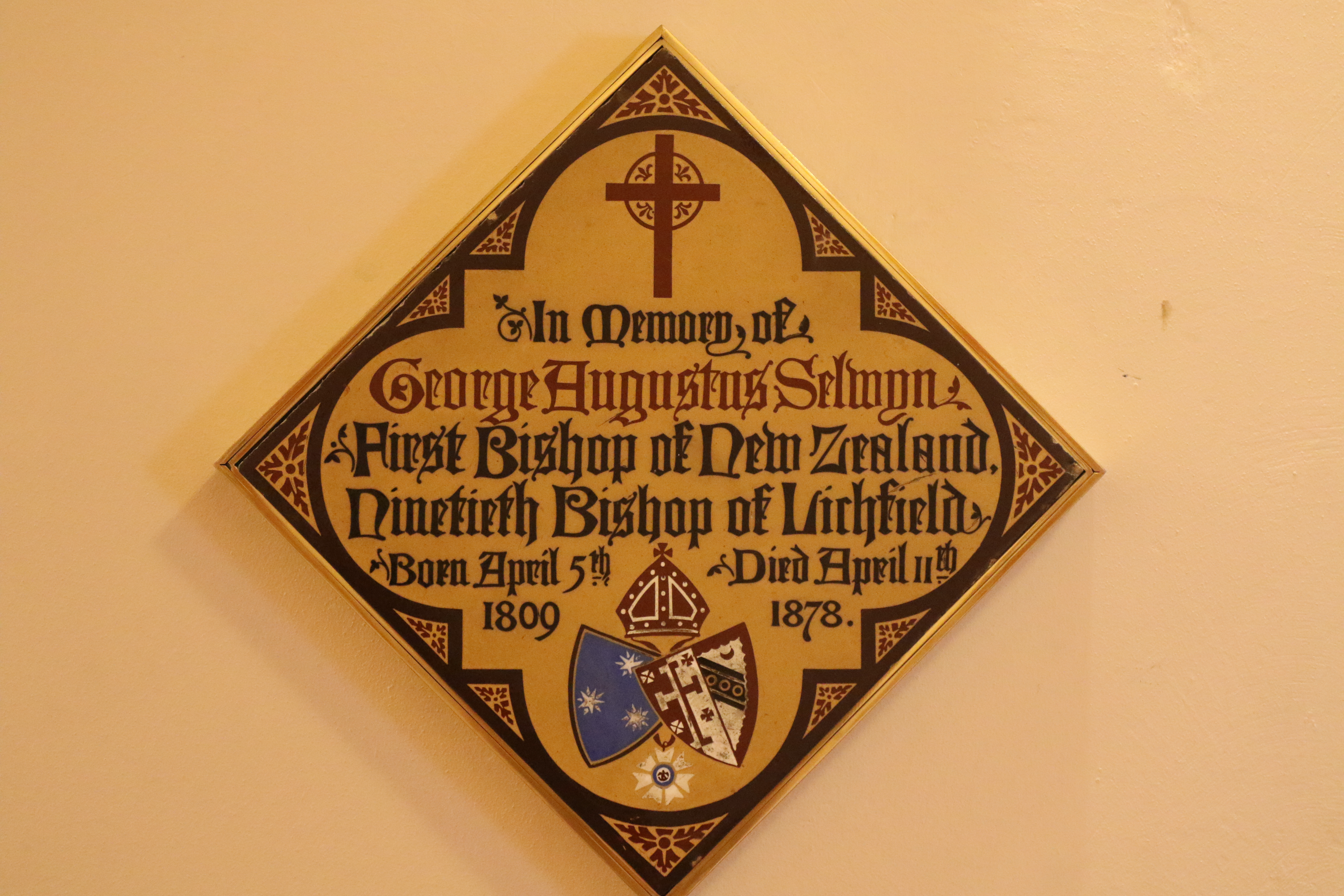 George Augustus Selwyn, First Bishop of New Zealand, Bishop of Lichfield